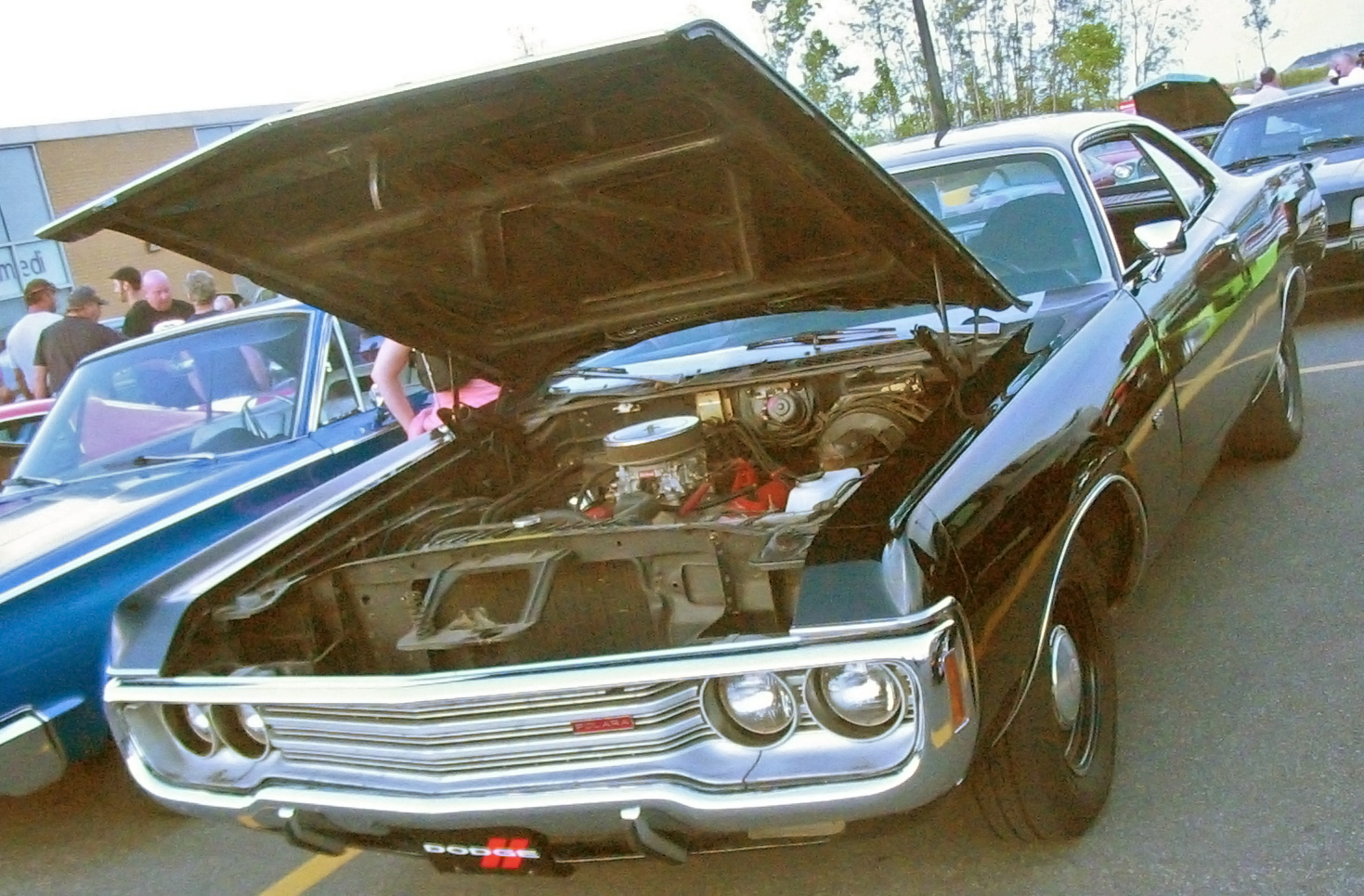 1971 Dodge Polara photographed in Vaudreuil-Dorion, Quebec, Canada at the Auto classique Bellepros Vaudreuil-Dorion.